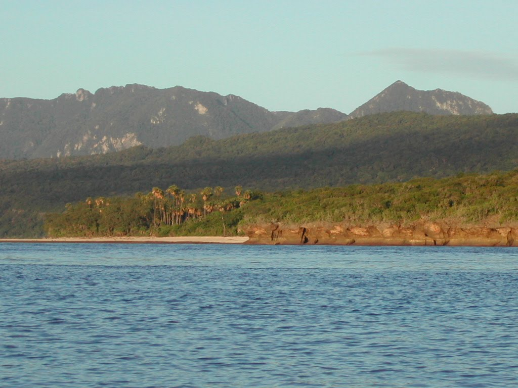 View west towards Paitchau range off Hilapuna Beach, Tutuala, Lautem, Timor-Leste